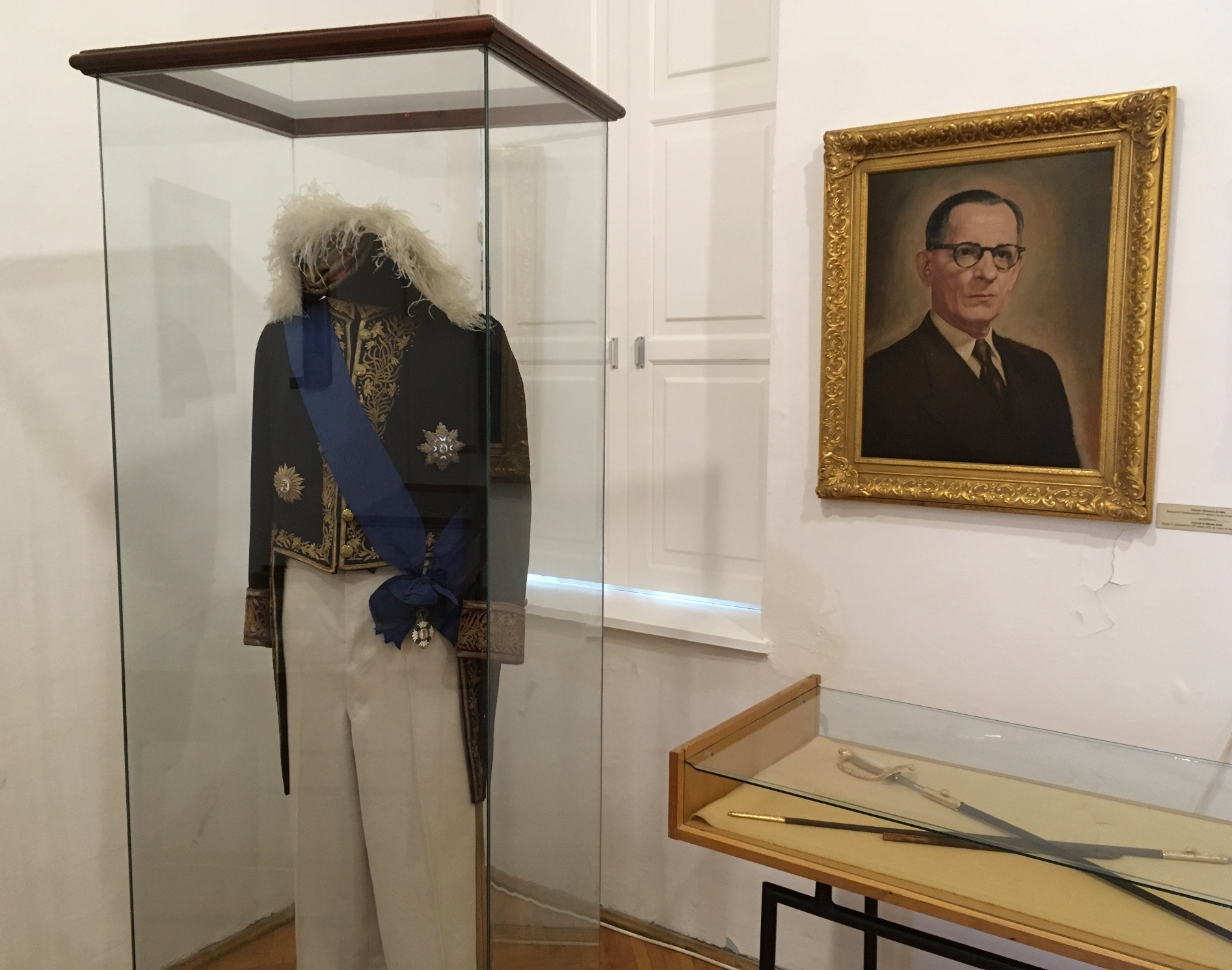 Jovan Dučić's diplomatic uniform, Museum of Herzegovina in Trebinje Српски (ћирилица): Дипломатска униформа Јована Дучића, Музеј Херцеговине у Требињу